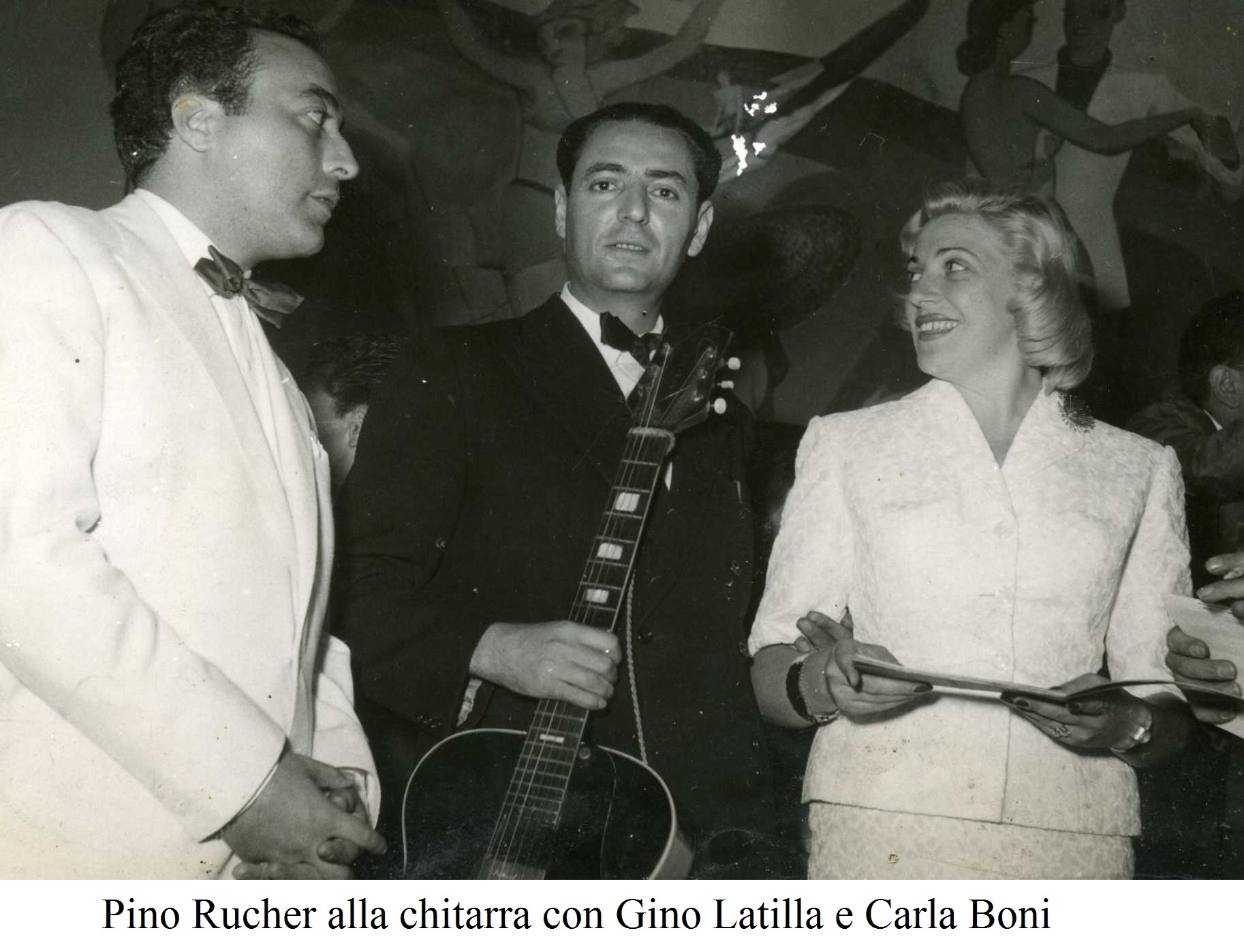 Pino Rucher between singers Carla Boni and Gino Latilla